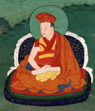 Jamyang Lodro Sengge (b.1345 - d.1390)- eighth abbot of Ralung monastery